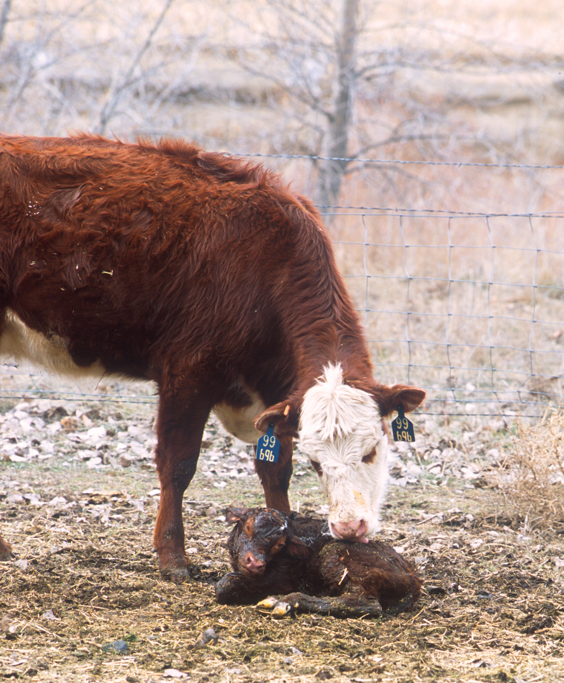 Cow and calf. Minutes after giving birth, a 2-year-old cow attends to her newborn calf.